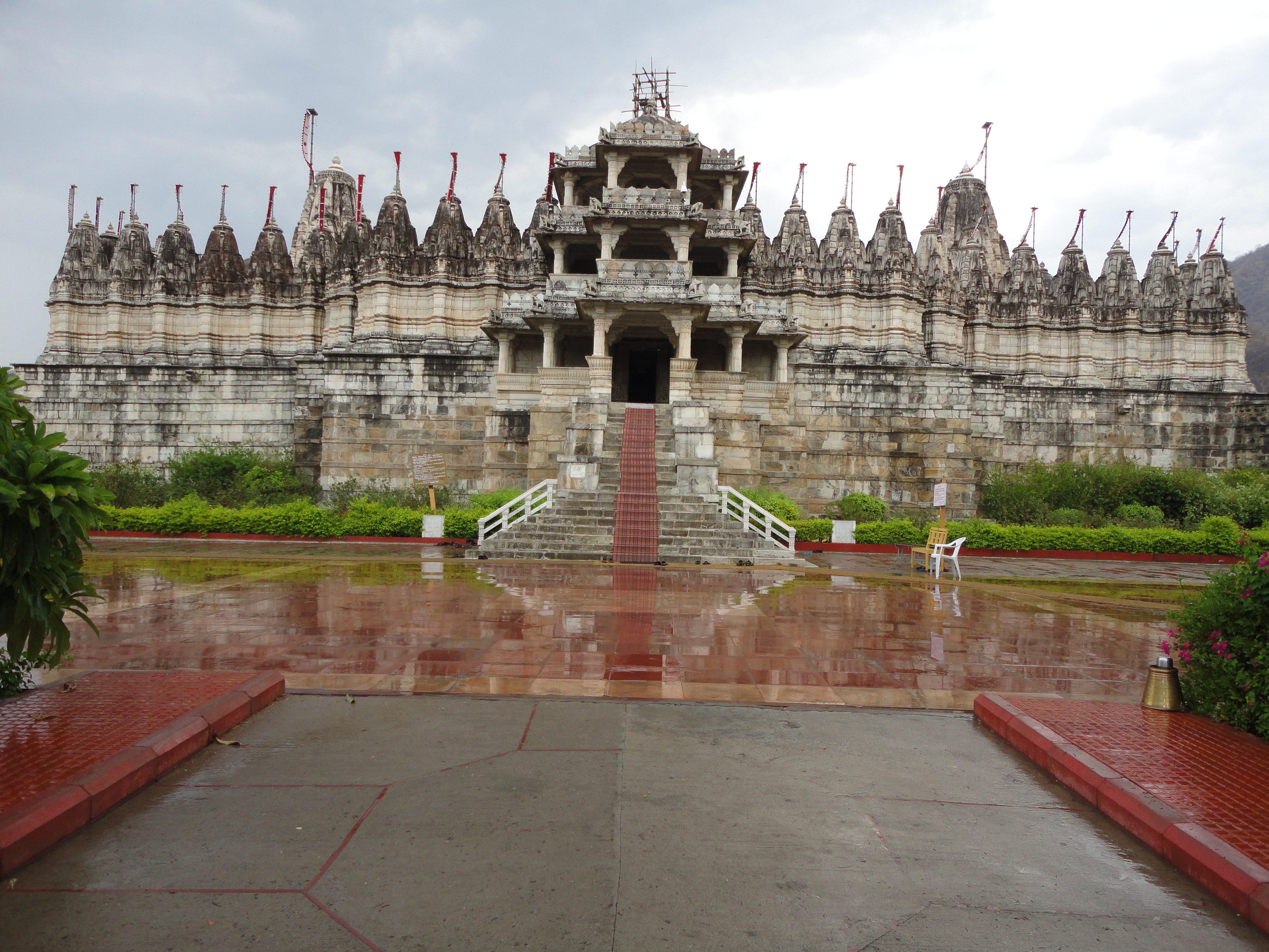 Ranakpur Jain Temple is located in Pali district of Rajasthan state in India